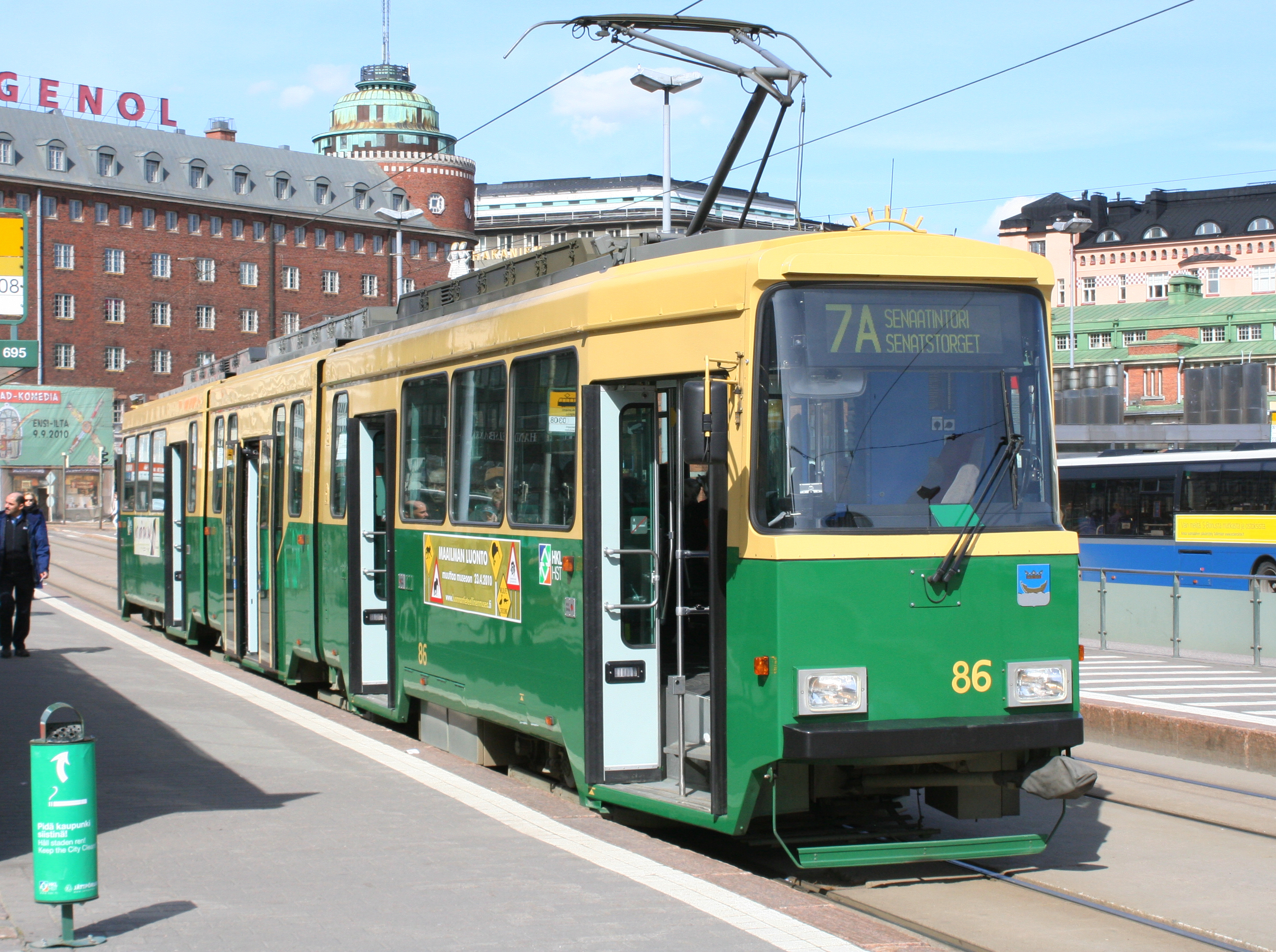 A Helsinki City Transport -owned MLNRV-type tram (Nr II tram with an added low-floor midsection) in Hakaniemi, Helsinki on line 7A. The Nr II trams were built between 1984 and 1987 by Valmet in Finland, with the added sections built by Verkehrs Industrie Systeme in Germany and installed in Finland by HKL from 2006 onwards.